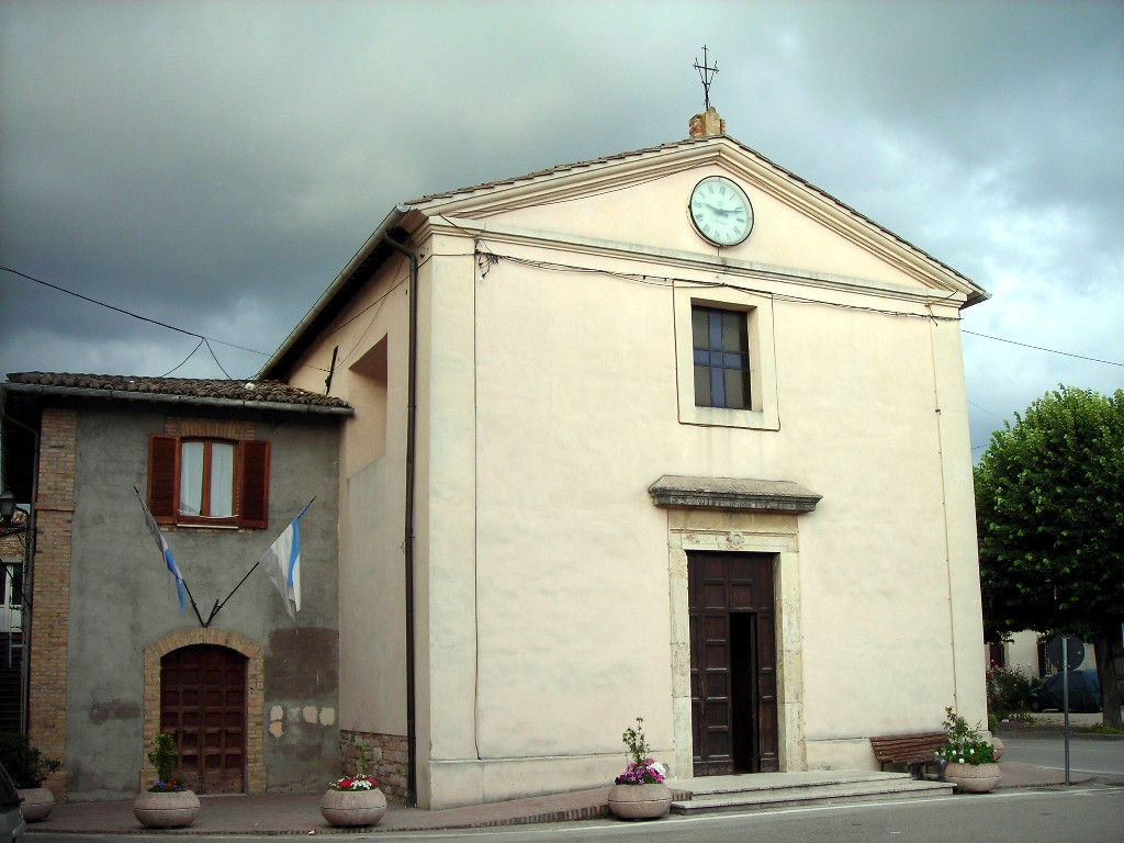 Church of St Bernardino, Tordandrea, Assisi, Perugia, Umbria, Italy